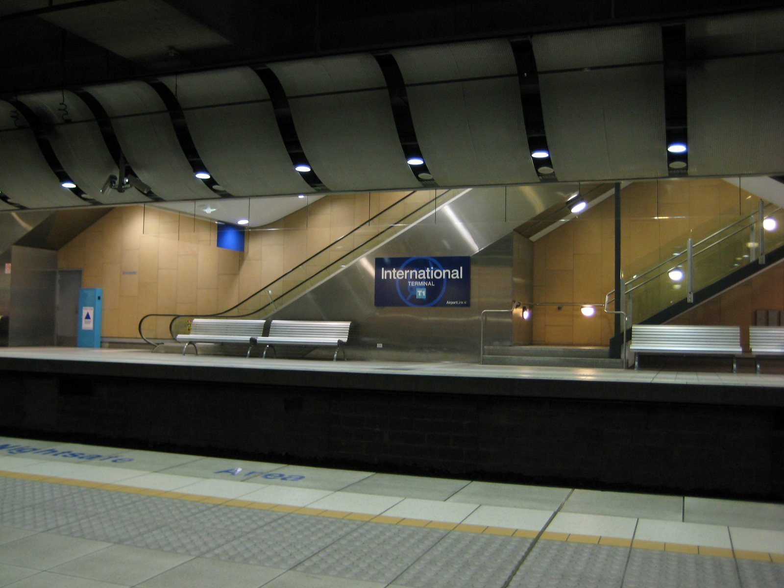 Centre of the platform at International railway station.